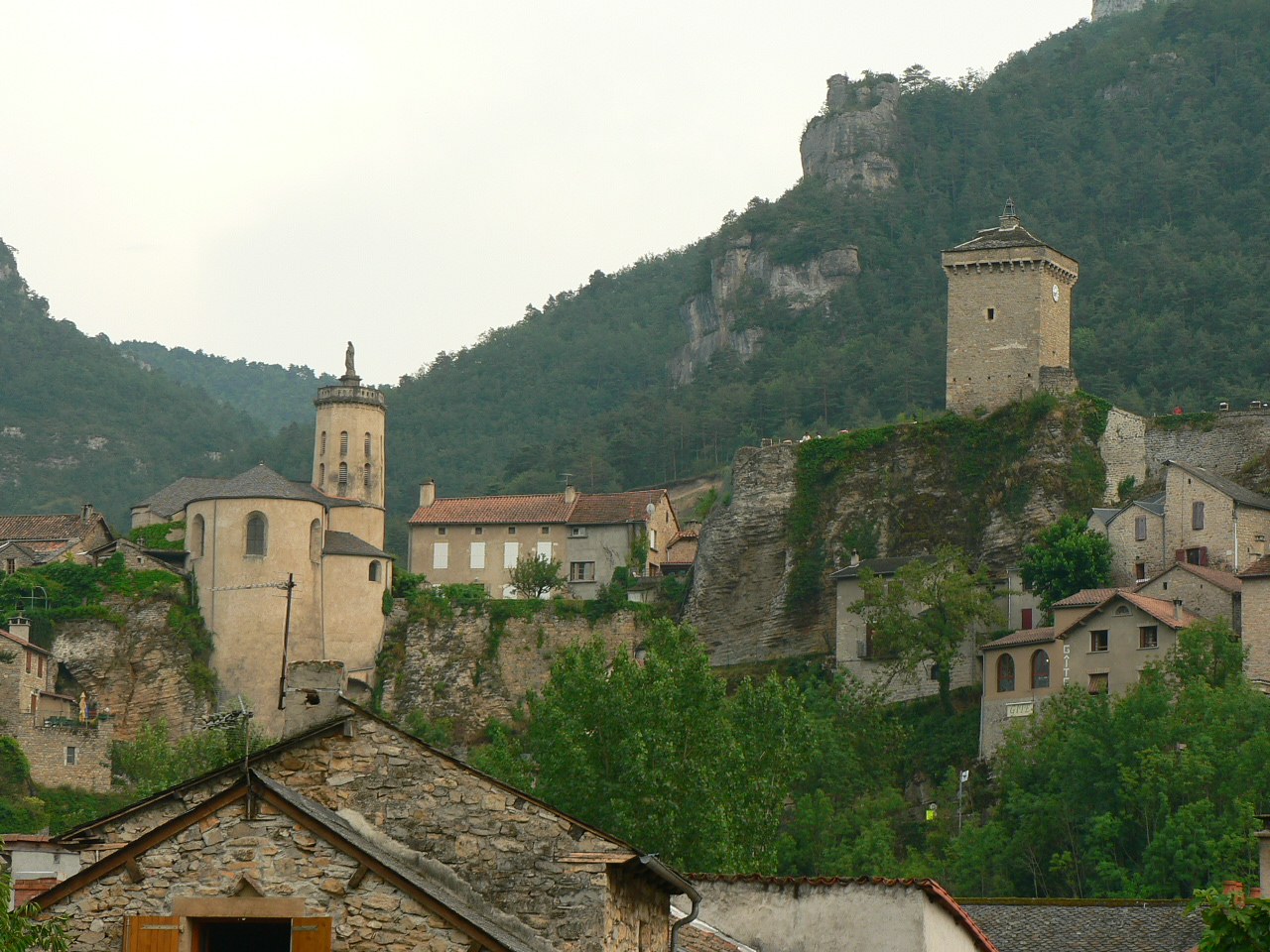 Village of Peyreleau (Aveyron, France)